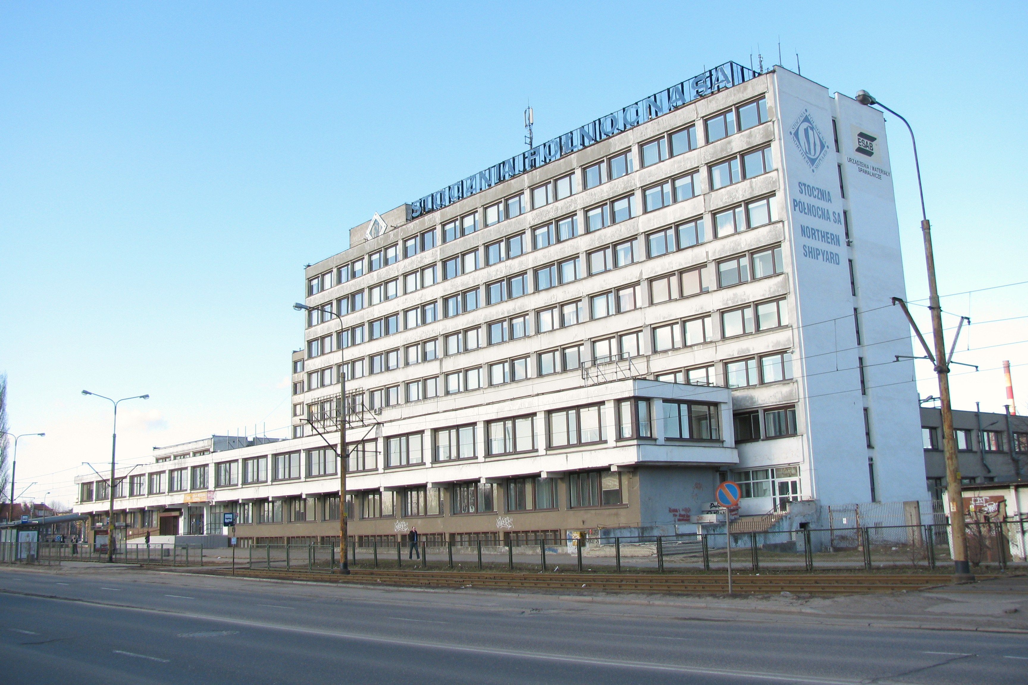 The Northern Shipyard in Gdańsk (Poland) offices, Marynarki Polskiej Street, Gdańsk.